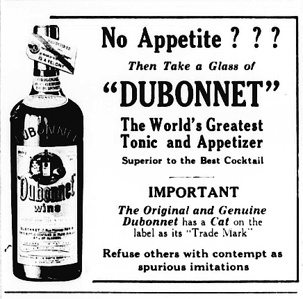 Dubonnet wine ad from a New York newspaper in 1915.